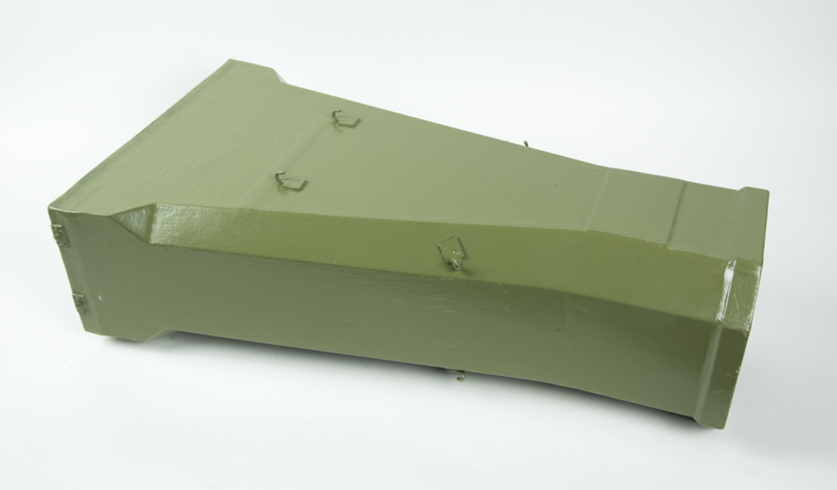 Serial camera Type w/18. RB-2. Image format 60x240mm. This camera is most likely constructed by Bengt Berg.